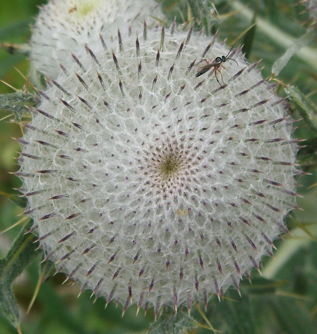 Detail of Cirsium eriophorum